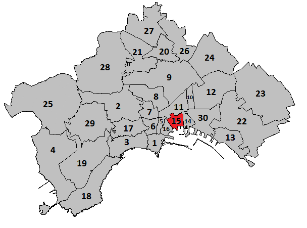 Pendino in Naples